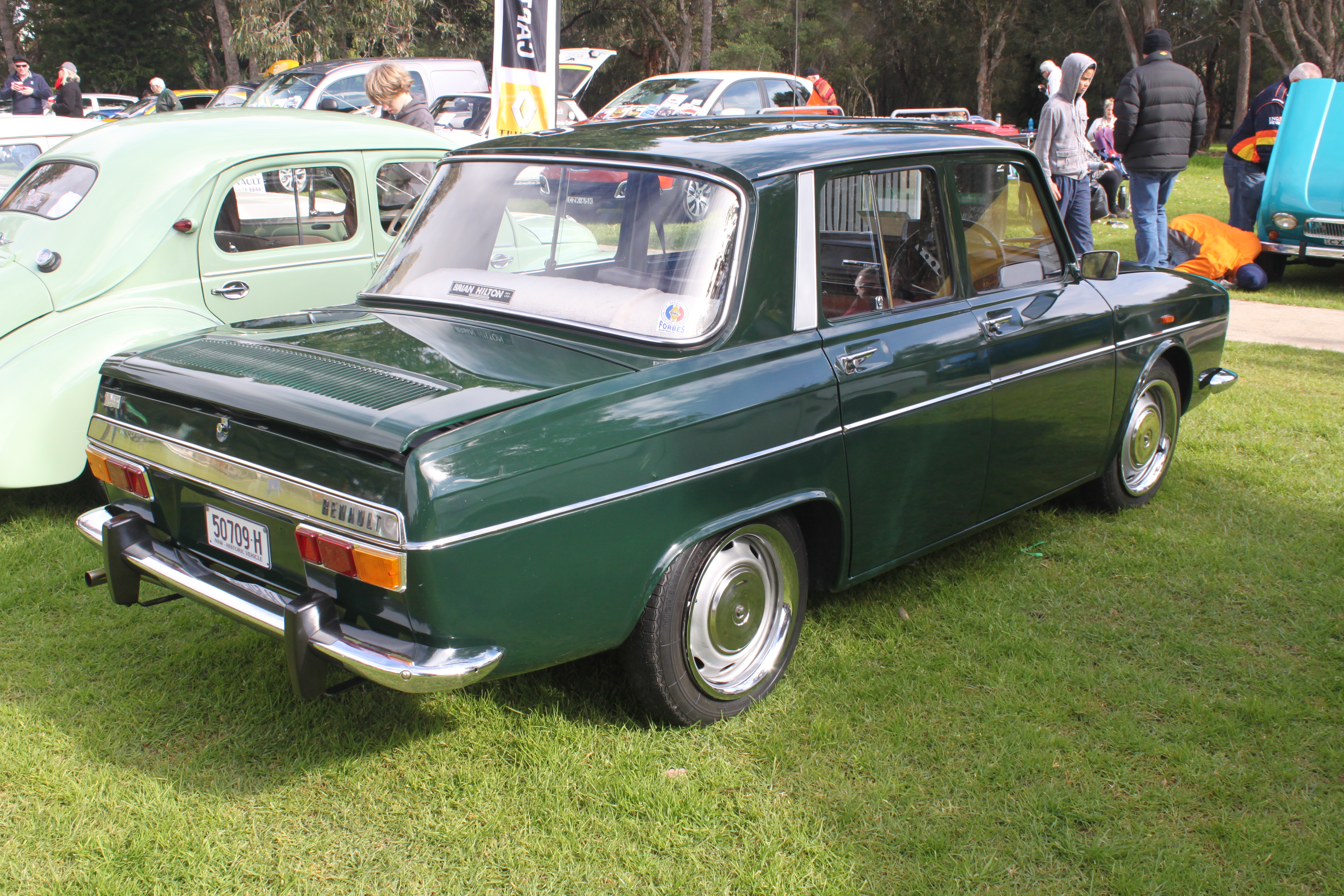 All French Day, Silverwater Park, NSW July 2015